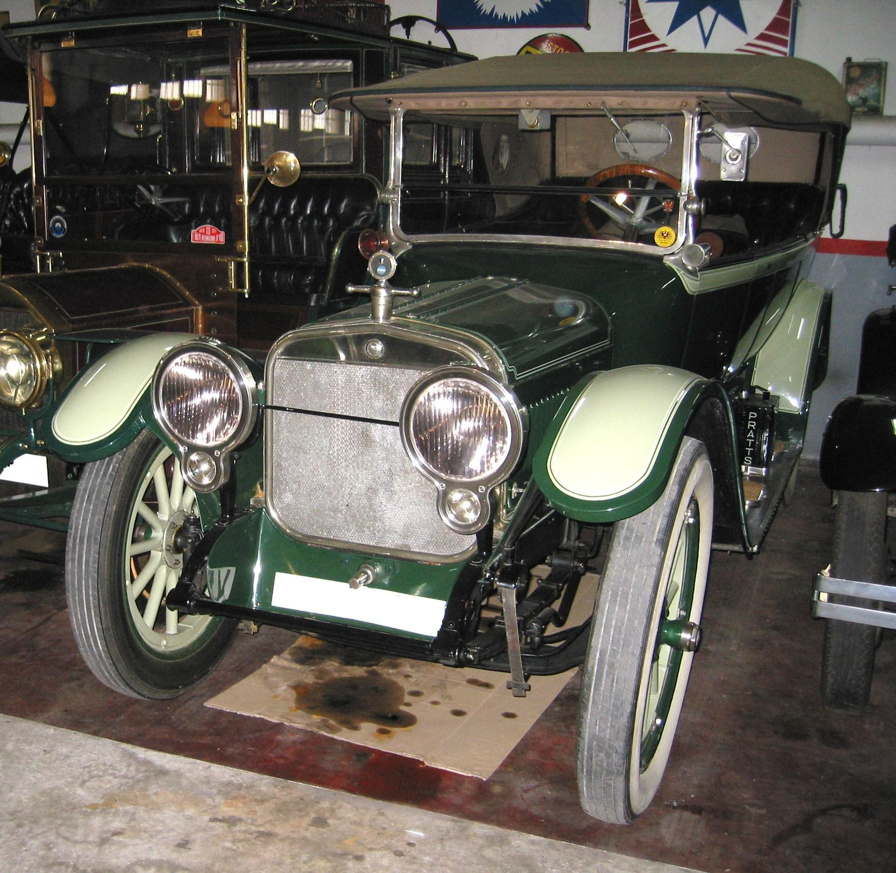 Winton 1916